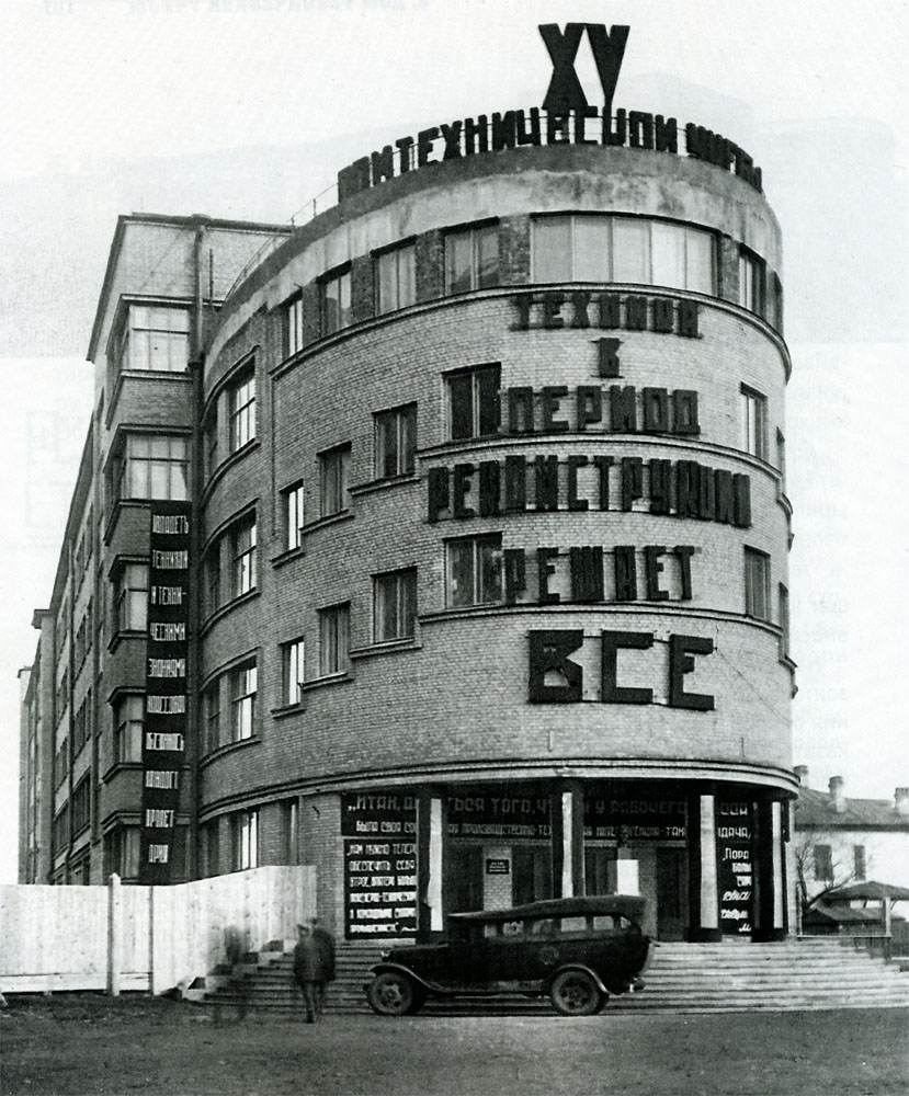 As-built photo of the Technical Colleges Building in Leningrad (4, Ivana Chernykh Street - Kirovsky District). Note that a modernist building was executed in ordinary brick. Most of the building was later demolished, the parabolic "end cap" shown here still stands, although some "Constructivist" elements like corner sunrooms were removed.